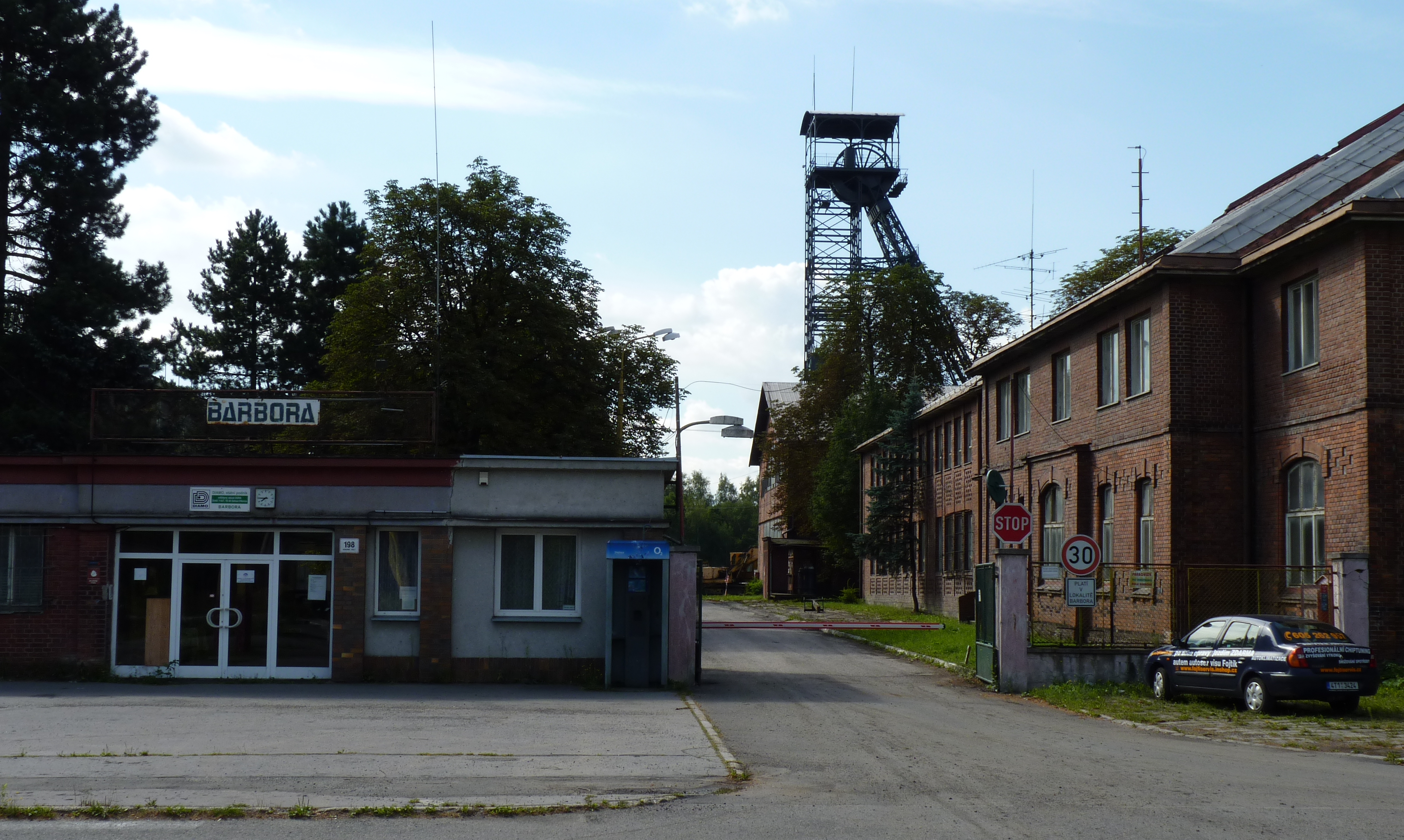 Coal mine Barbora. Karviná, Karviná District, Moravian-Silesian Region, Czech Republic